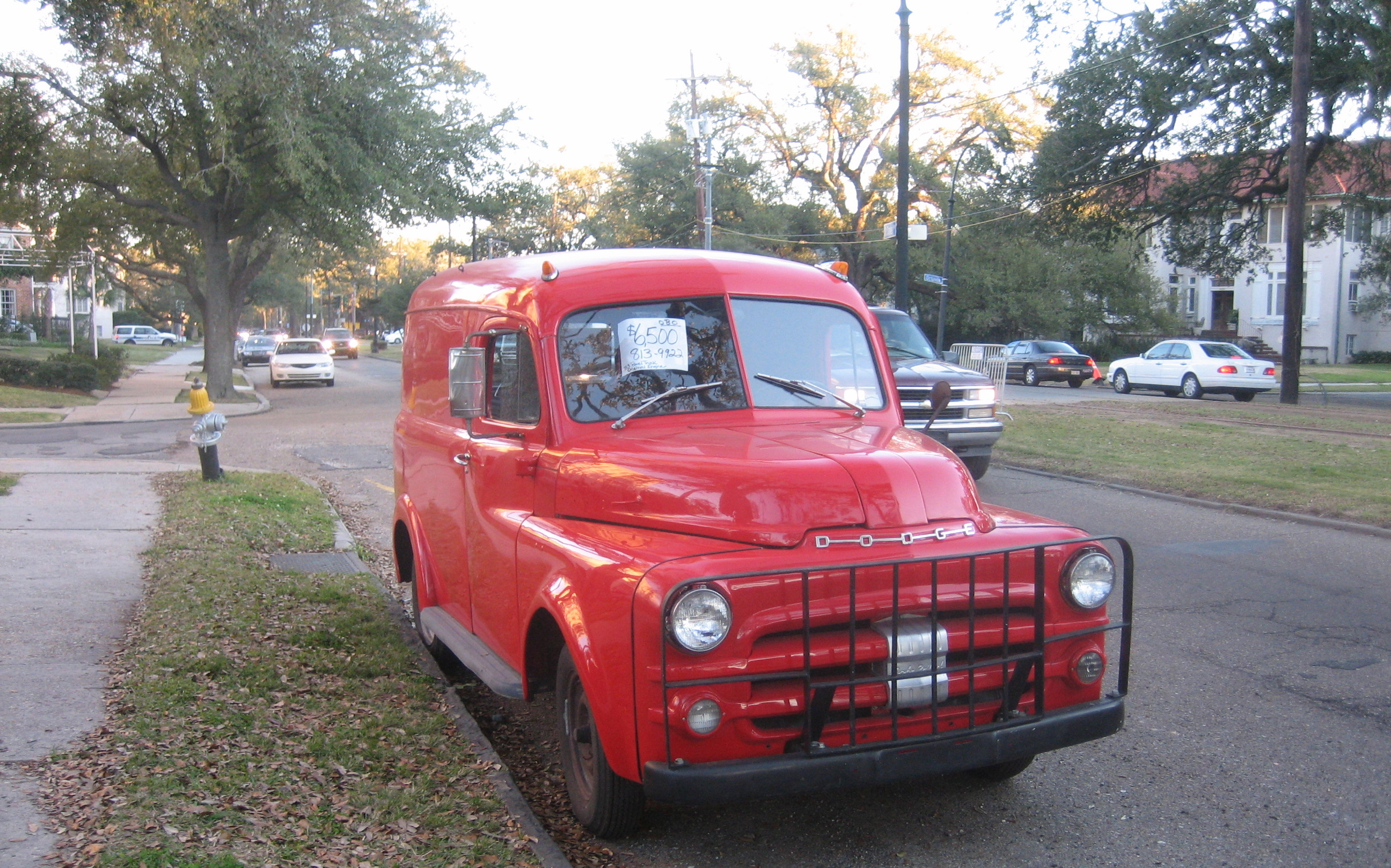 1953 Dodge Panel Truck on St. Charles Avenue, New Orleans. Photo by Infrogmation of New Orleans, February 2007.